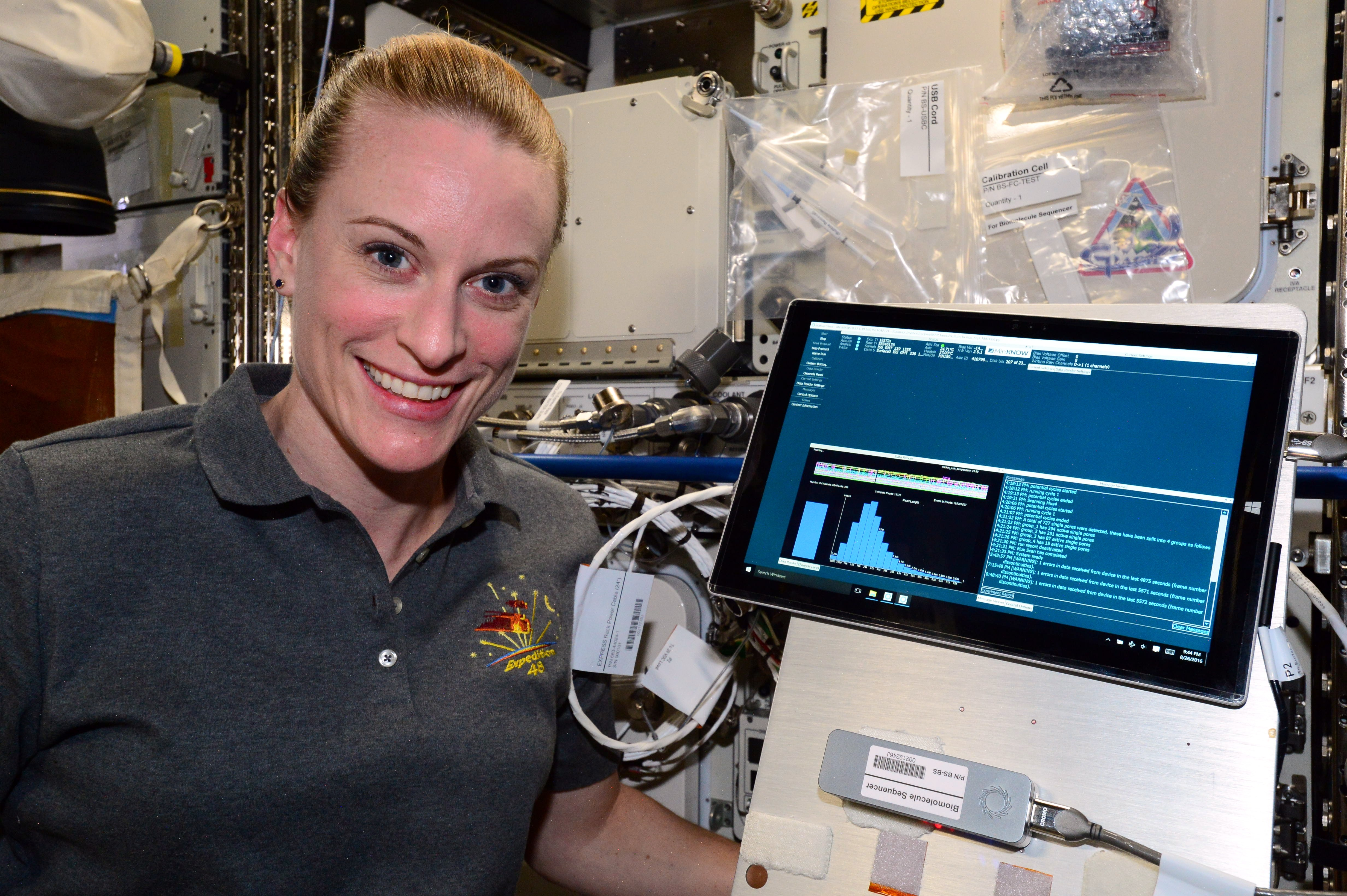 For the first time ever, DNA was sequenced in space as part of the Biomolecule Sequencer investigation on the International Space Station. The sequencing device used is called MinION, and sequencing was performed by ISS astronaut Kathleen (Kate) Rubins.